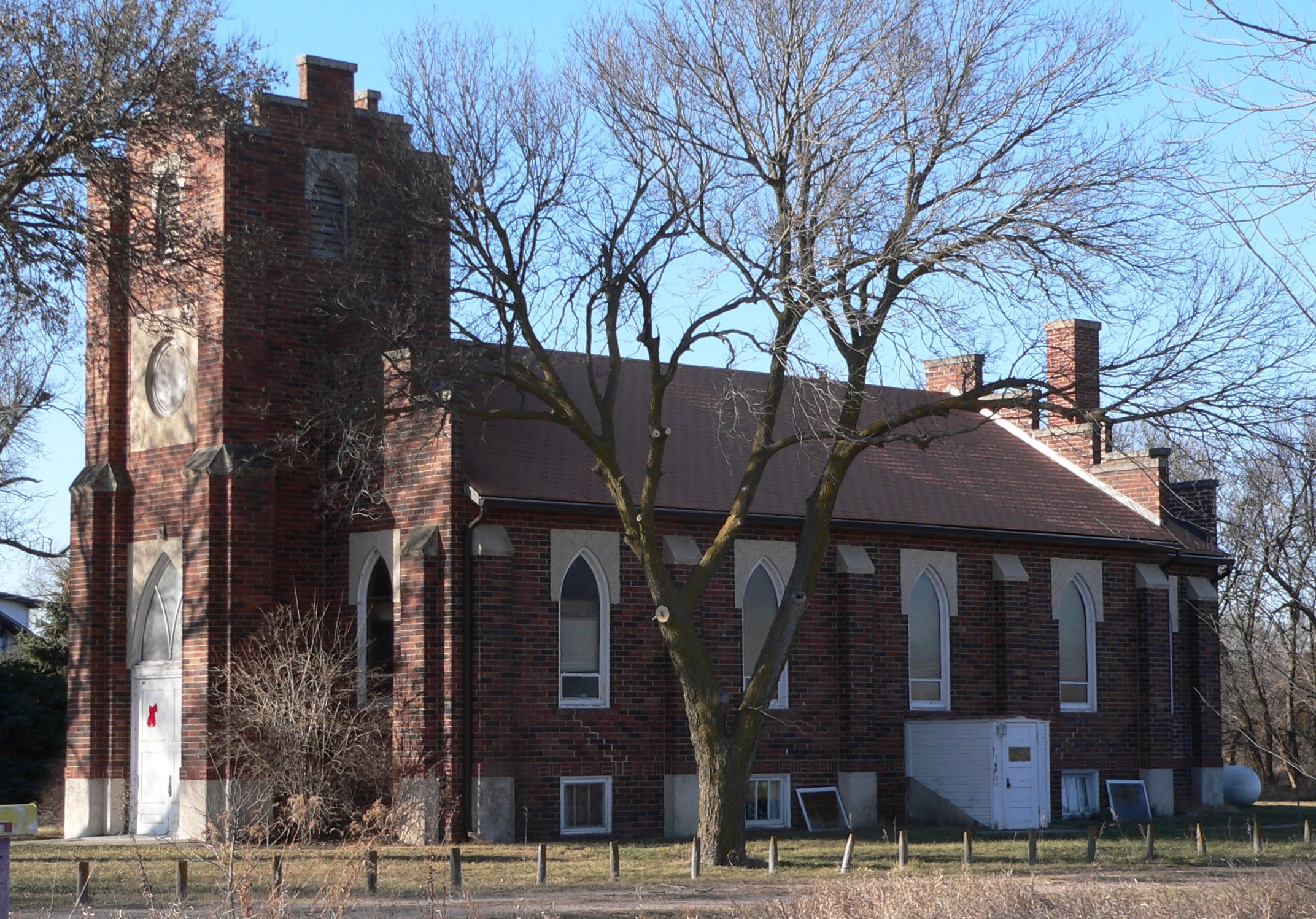 St. Peder's Dansk Evangelical Lutheran Kirke in Nysted, Howard County, Nebraska; seen from the southeast. The church was built in 1919; it is listed in the National Register of Historic Places.